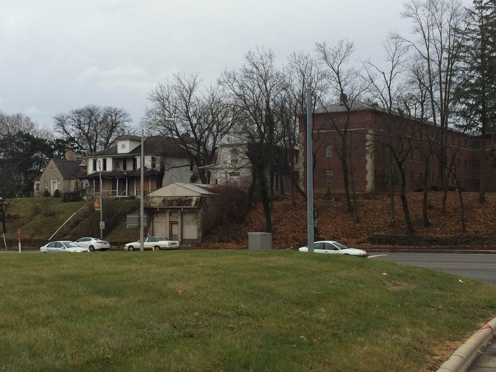 Not available